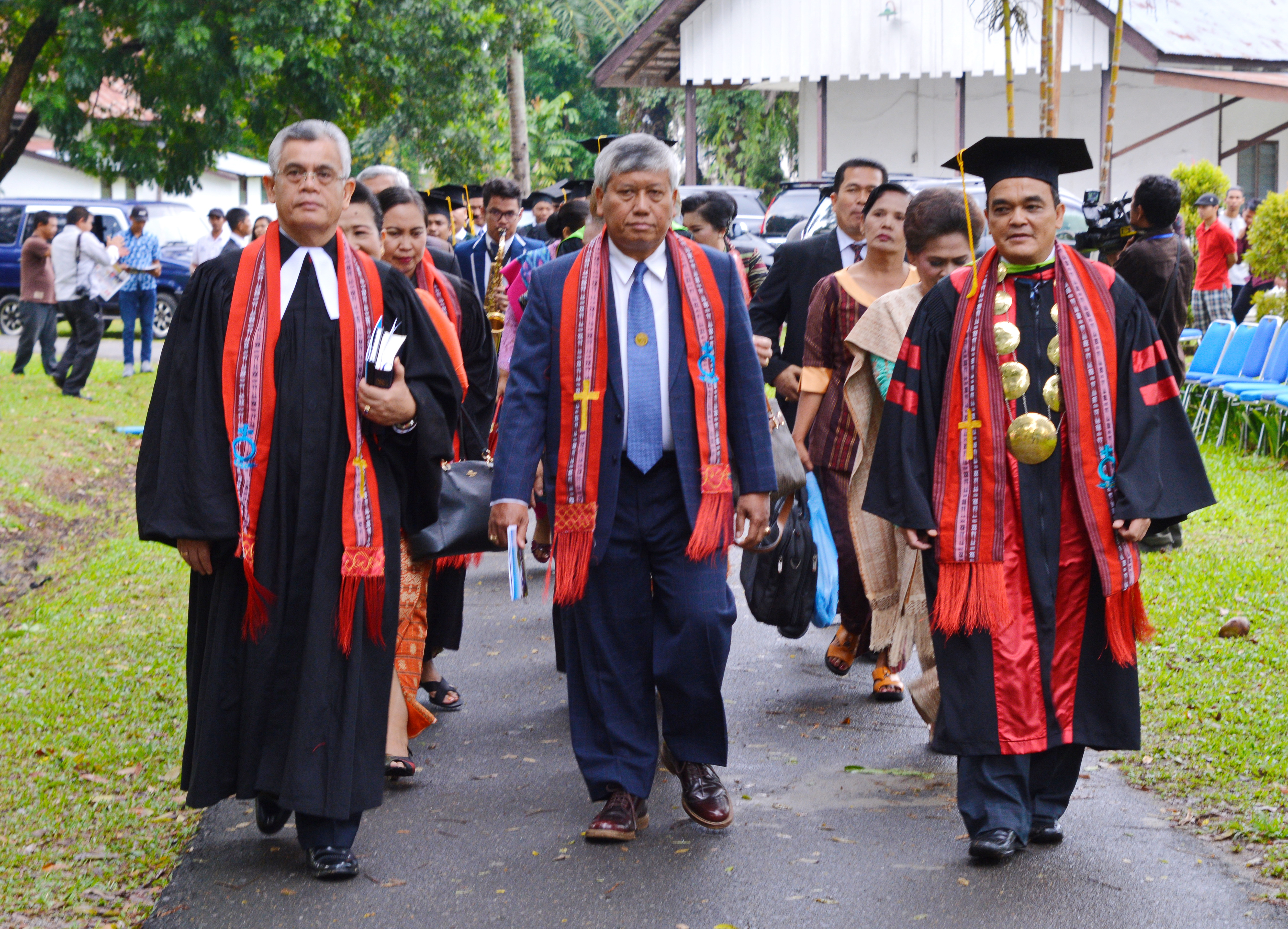 Reverend David Sibuea (General Secretary of HKBP), Reverend Darwin Lumbantobing (Bishop of HKBP), and Reverend Robert Silitonga (Director of HKBP Pastoral School) during HKBP's pastoral school graduation in 2019 in Pematangsiantar, North Sumatra